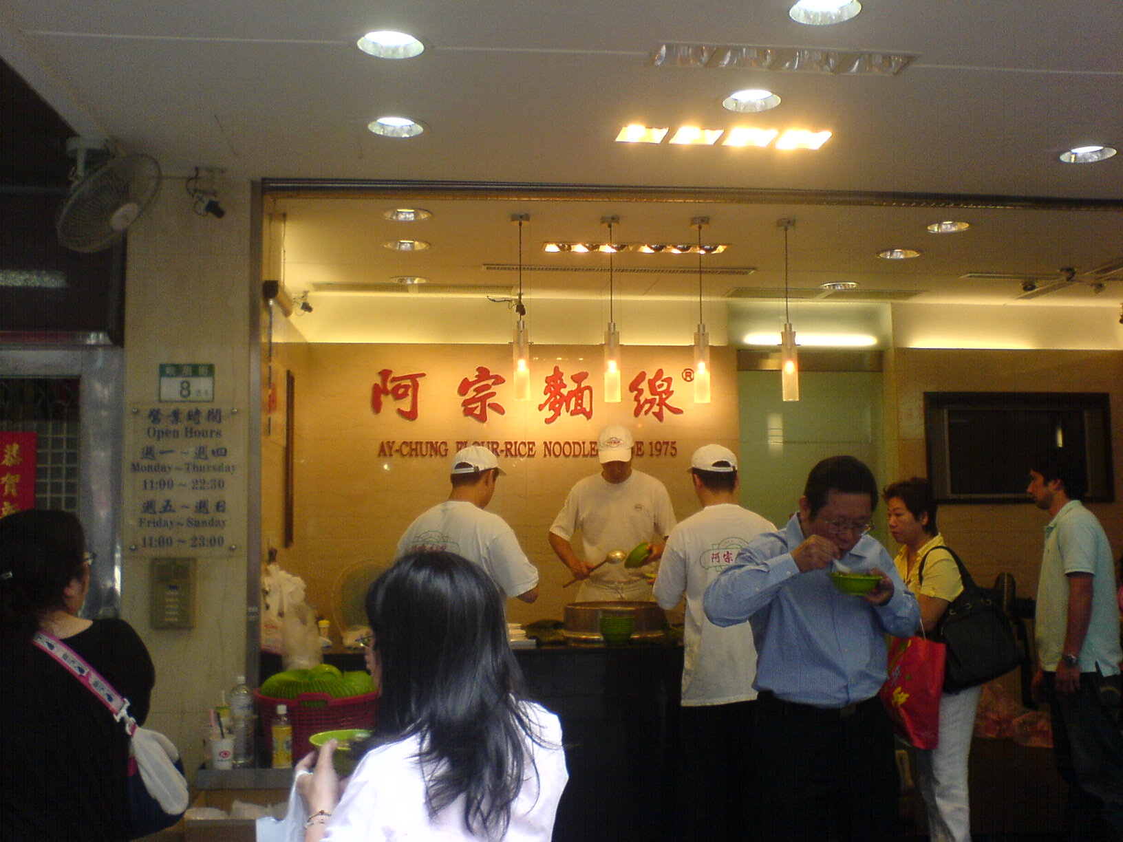 Ay-Chung Flour-Rice Noodle in Ximending, Taipei. 中文（台灣）: 阿宗麵線，位於臺北市萬華區峨眉街8之1號1樓。